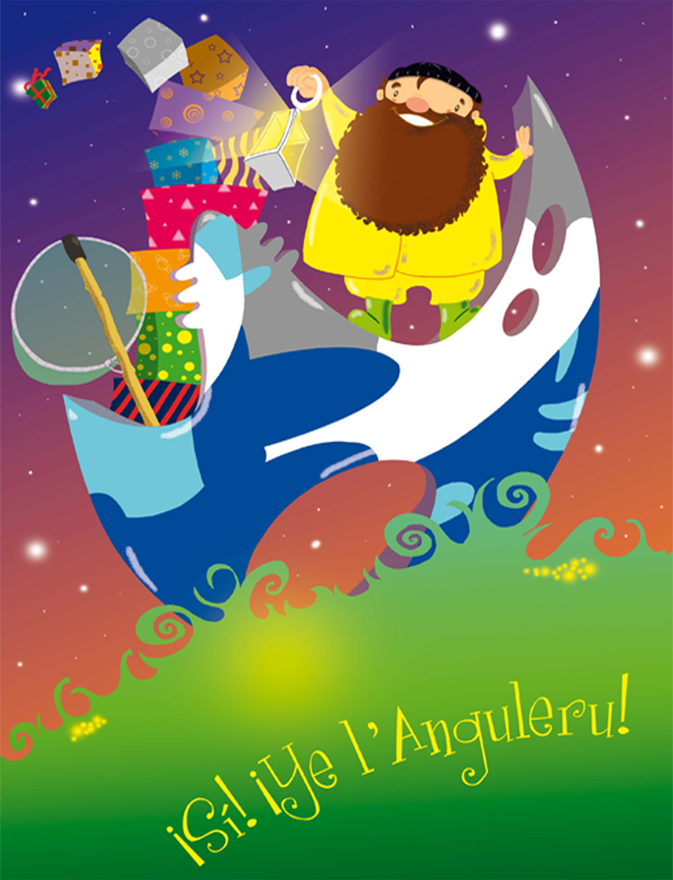 Christmas & wintertime character Anguleru, part of Asturian folklore.